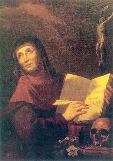 Anonymous portrait of Venerable Giovanna Battista Solimani, end of 18th cent.